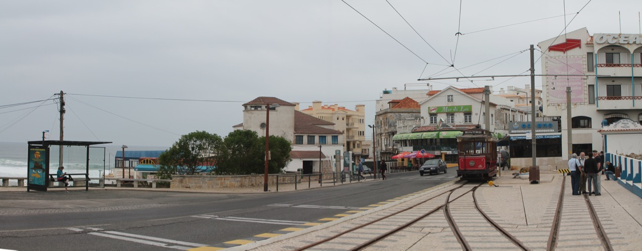 Praia das Maças terminus with tram no.1